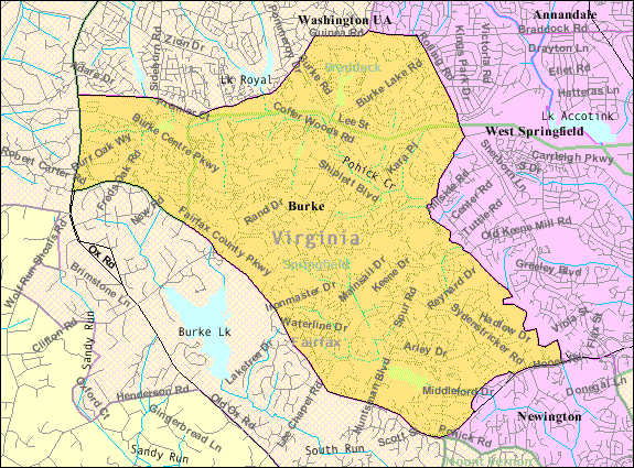 Map of Burke, Virginia